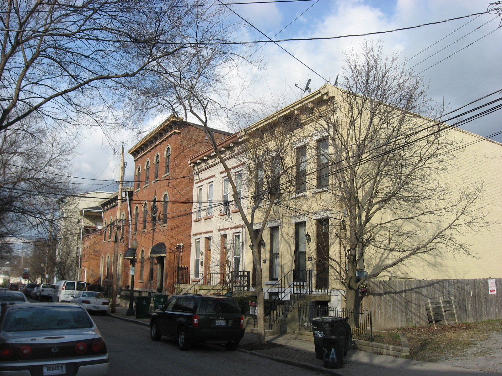 Houses on the northern side of the 400 block of Chestnut Street in the West End of Cincinnati, Ohio, United States. Built in the early 19th century, this block is part of Cincinnati's oldest neighborhood that is still largely residential, the Betts-Longworth Historic District; it is listed on the National Register of Historic Places.